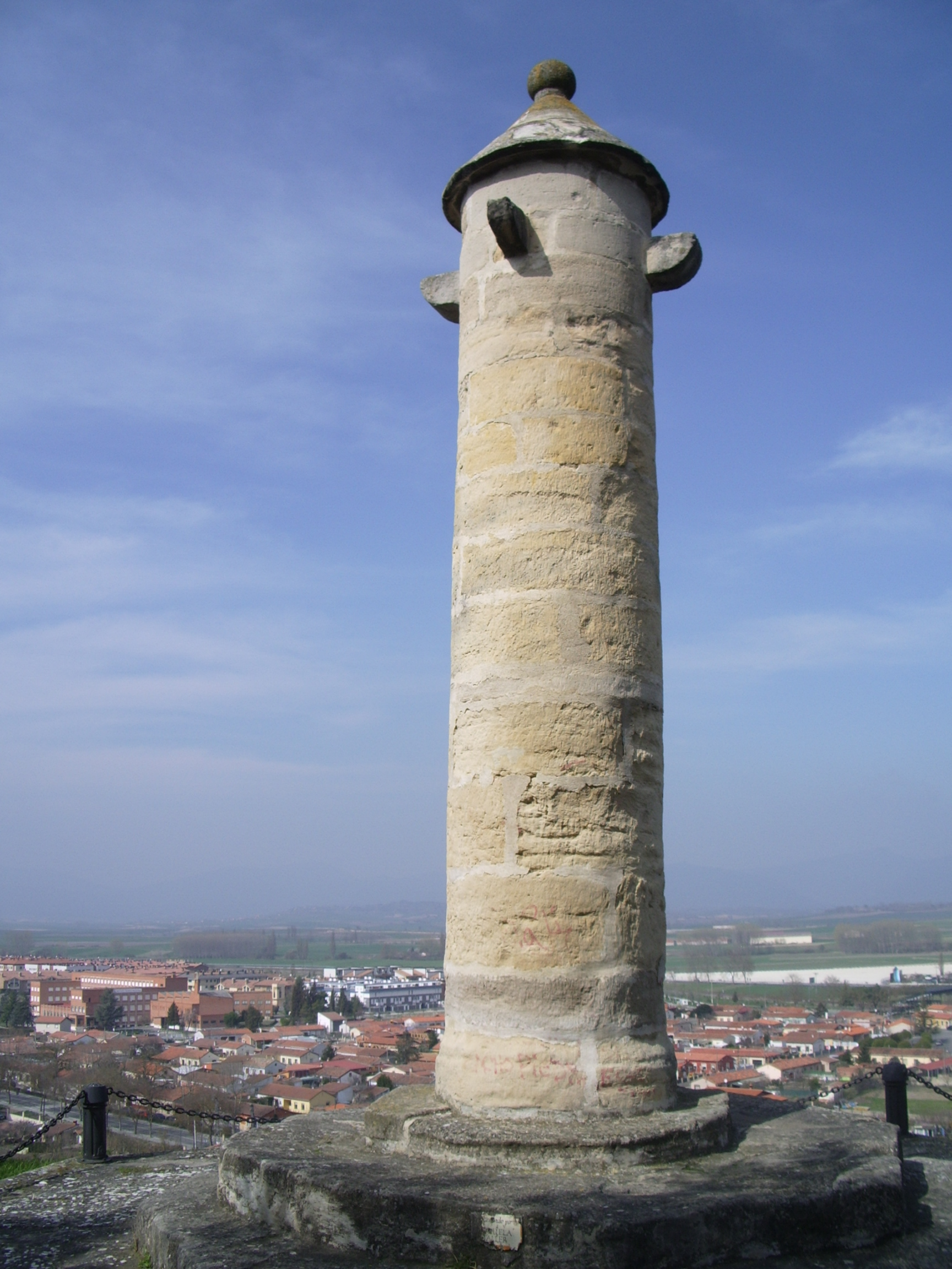 Rollo de justicia en Miranda de Ebro.